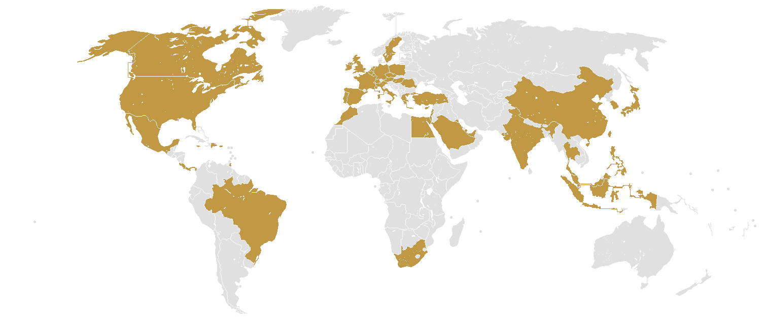 Worldwide distribution of Häagen-Dazs